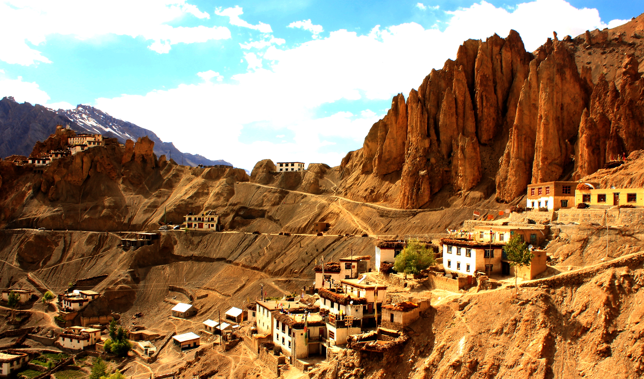 Dhankar village